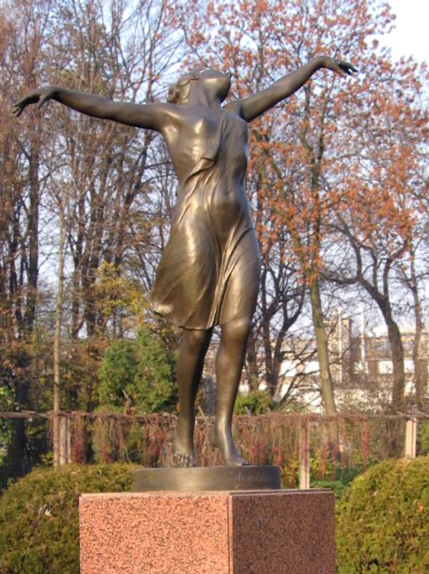 "Tancerka" (Dancing Girl) by Stanisław Jackowski, in Skaryszewski Park, Warsaw, Poland